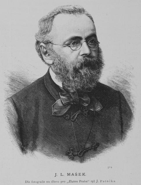 Portrait of Jan Ladislav Mašek, Czech writer and teacher.